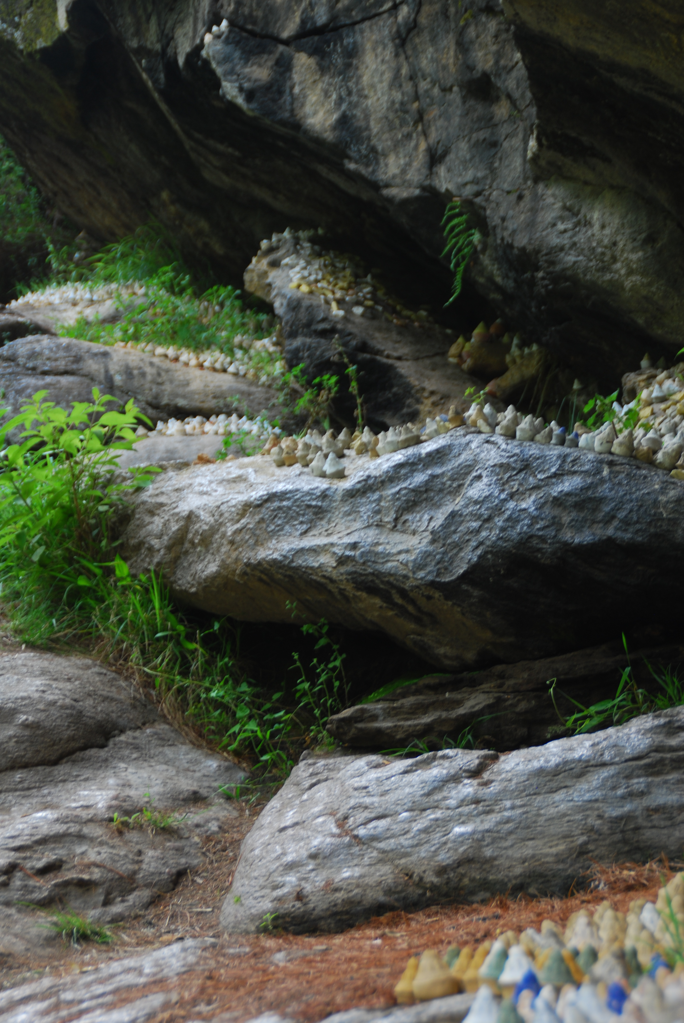 These tsatsa are little clay mounds that have been placed by the river at Membartsho as a form of religious offering.